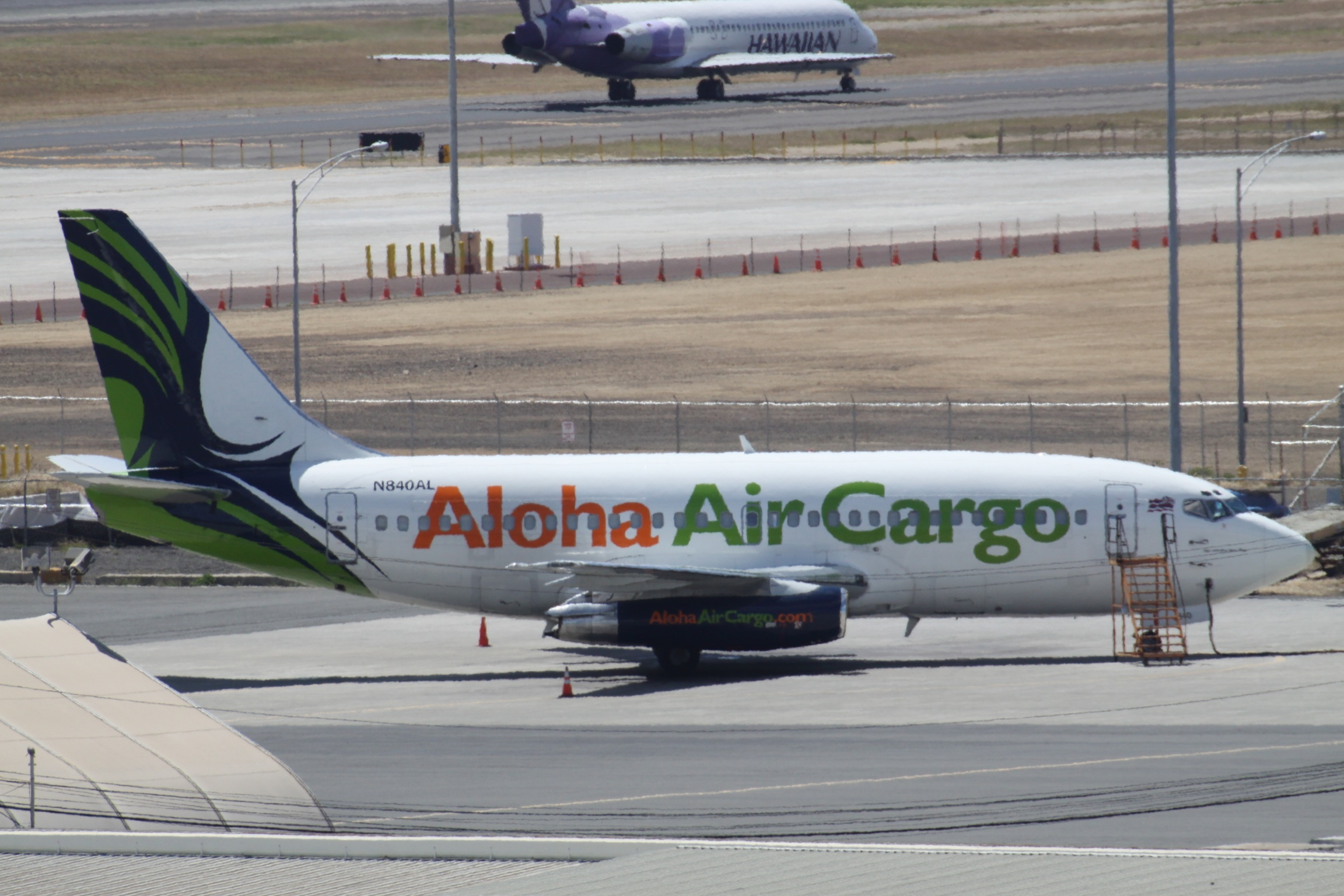 At Honolulu International